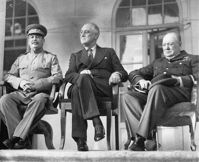 The "Big Three": From left to right: Joseph Stalin, Franklin D. Roosevelt, and Winston Churchill on the portico of the Russian Embassy during the Tehran Conference to discuss the European Theatre in 1943. Churchill is shown in the uniform of a Royal Air Force air commodore.